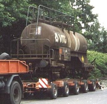 A trailer carrying a railroad car.